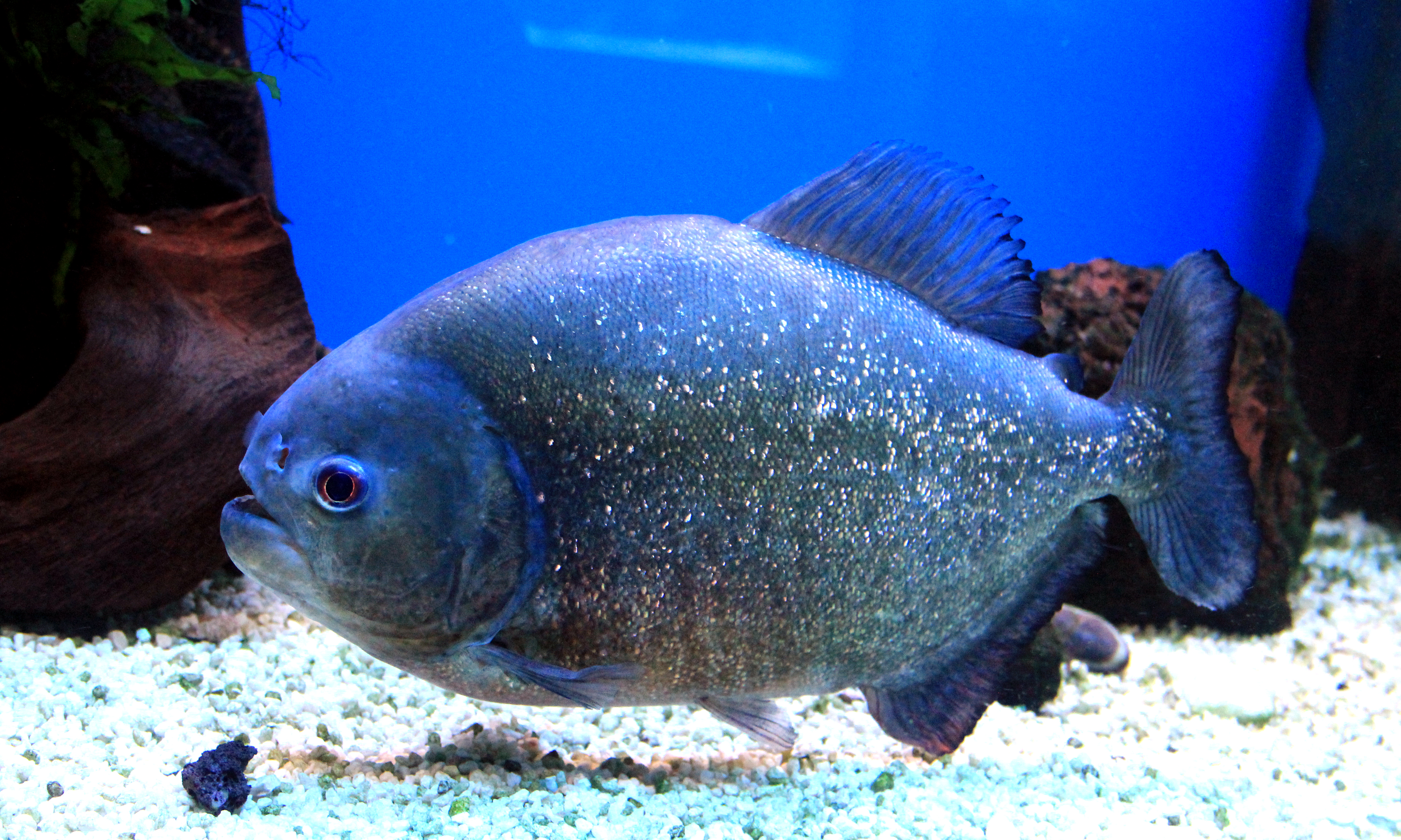 Fish Red-bellied piranha Pygocentrus nattereri in Prague sea aquarium, Czech Republic Česky: Ryba piraňa obecná (Pygocentrus nattereri) v pražském mořském akváriu Mořský svět v Holešovicích